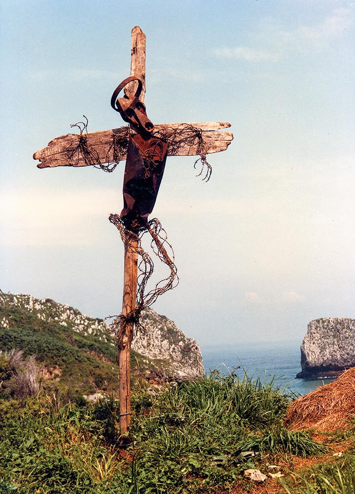 Lubo Kristek: Barbed Wire of Christ, 1983, assemblage, height: 250 cm.